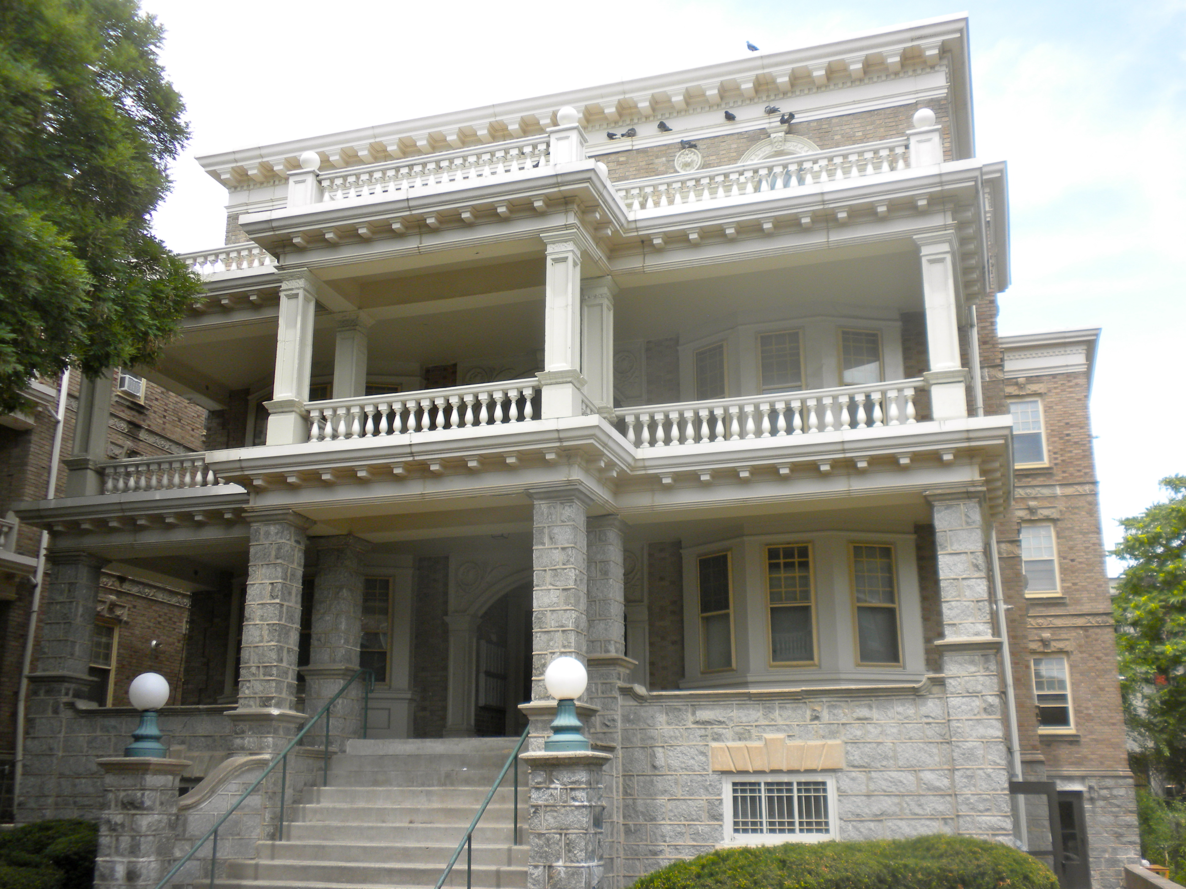 Regent-Rennoc Court in SW Philadelphia on NRHP since September 12, 1985. On 5100 block of Regent Street and 1311–1327 South 52nd Street (this is North side of 5100 block) in Southwest Schuylkill neighborhood. About six nearly identical buildings on both side of the street